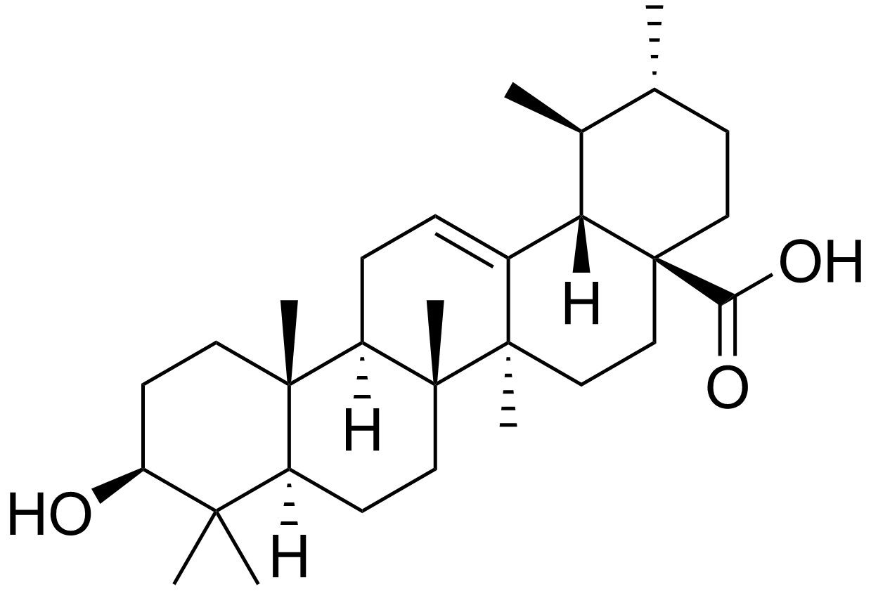 chemical structure of ursolic acid